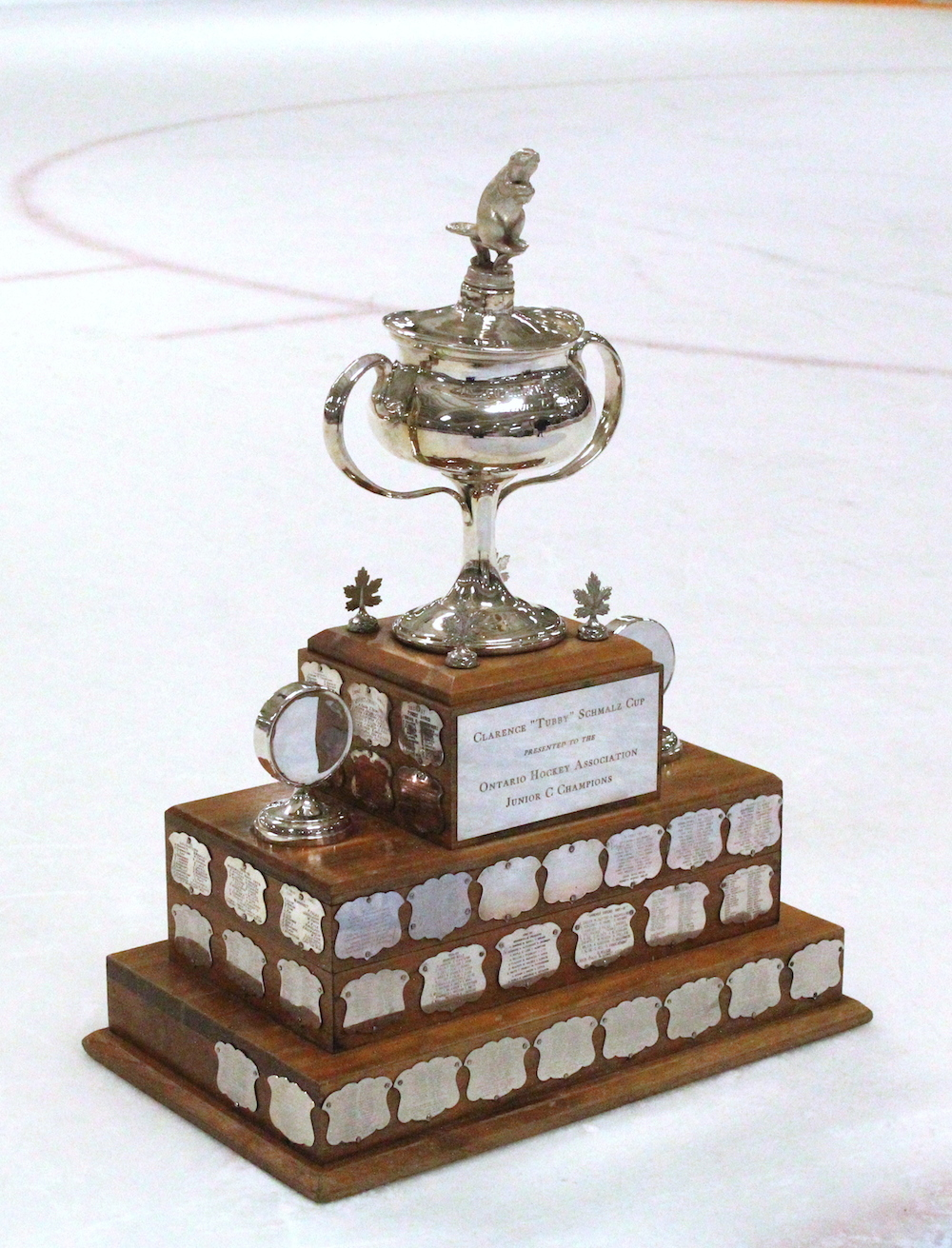 These images of the Clarence Schmalz Cup during the 2014-15 season are taken by Devan Mighton.